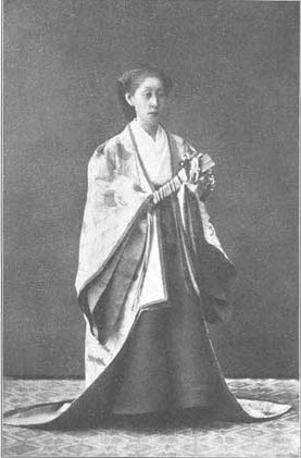 Mōri Yasuko